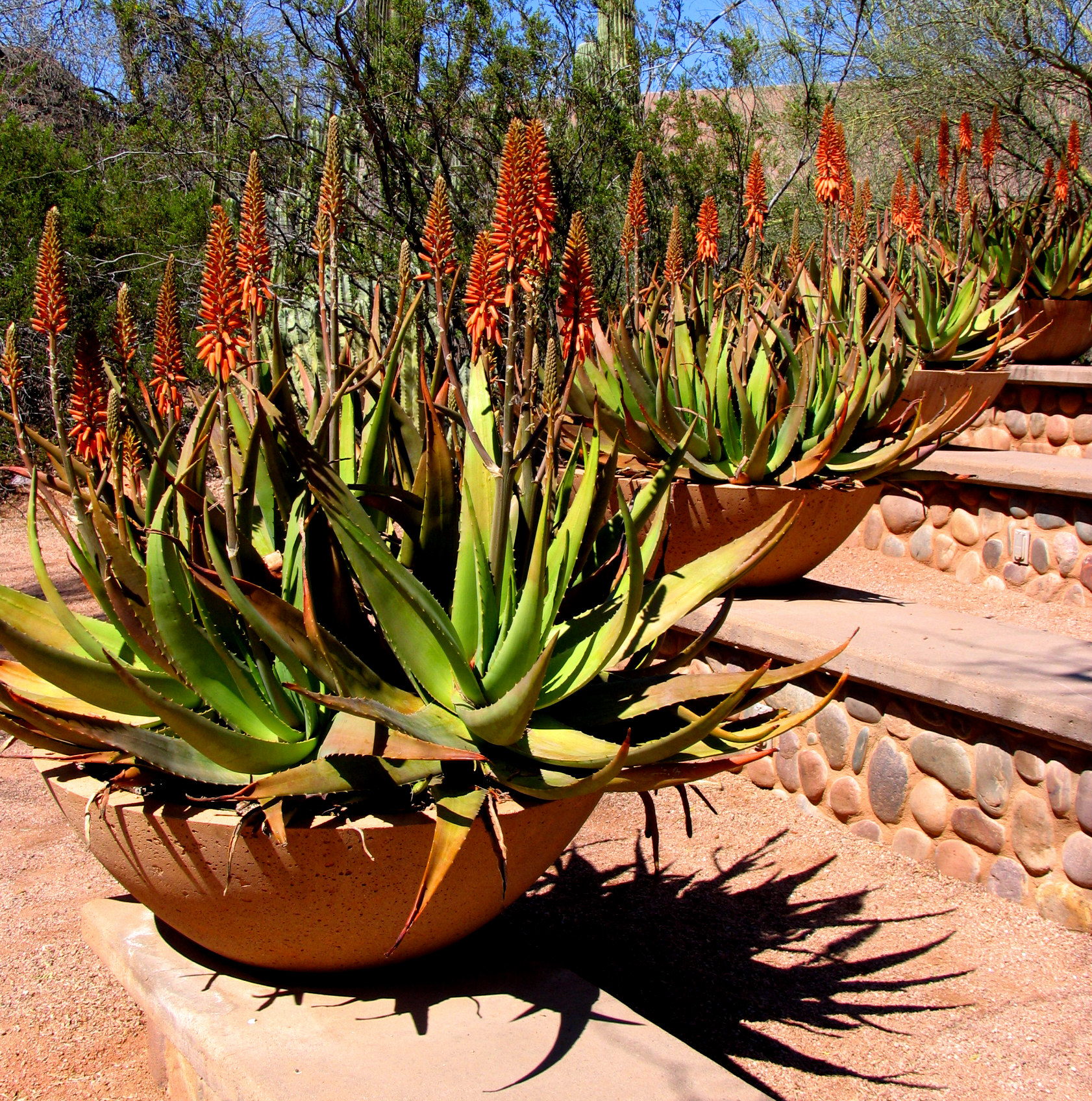 Aloe plants (misidentified on Flickr as Agave)